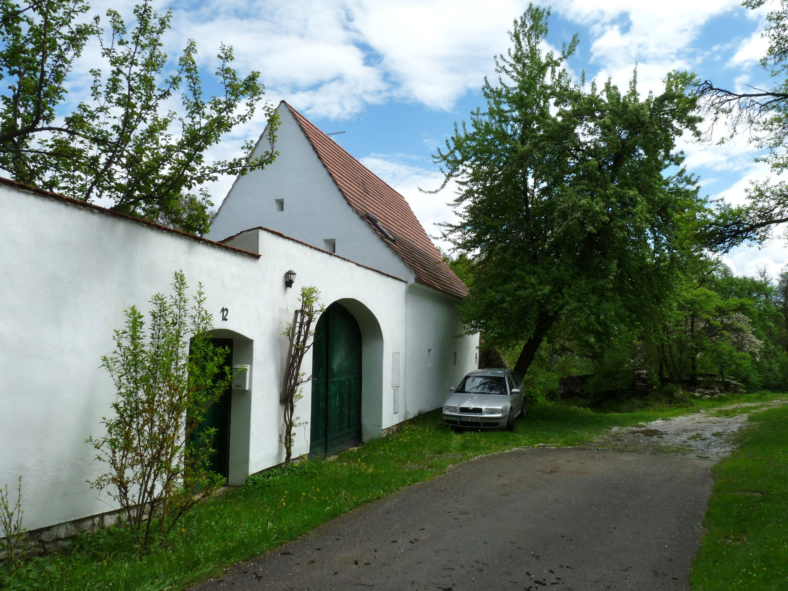 House No 12 in the village of Radostice, České Budějovice District, South Bohemian Region, Czech Republic.